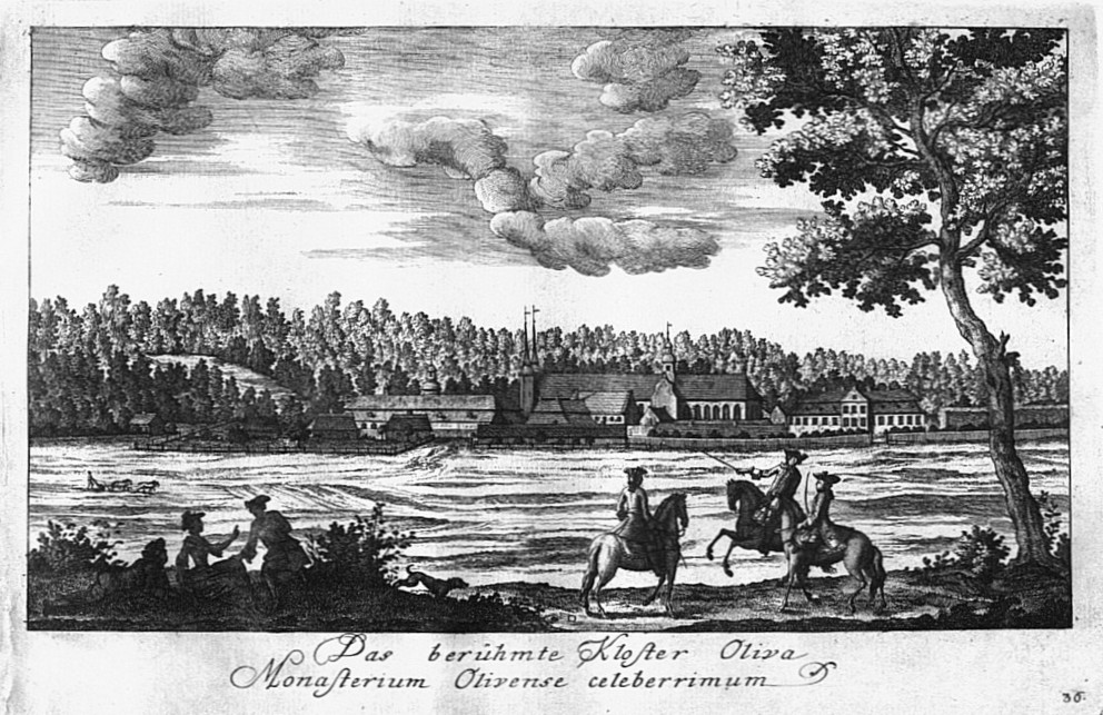 View of Oliva Monastery near Gdańsk, 1765